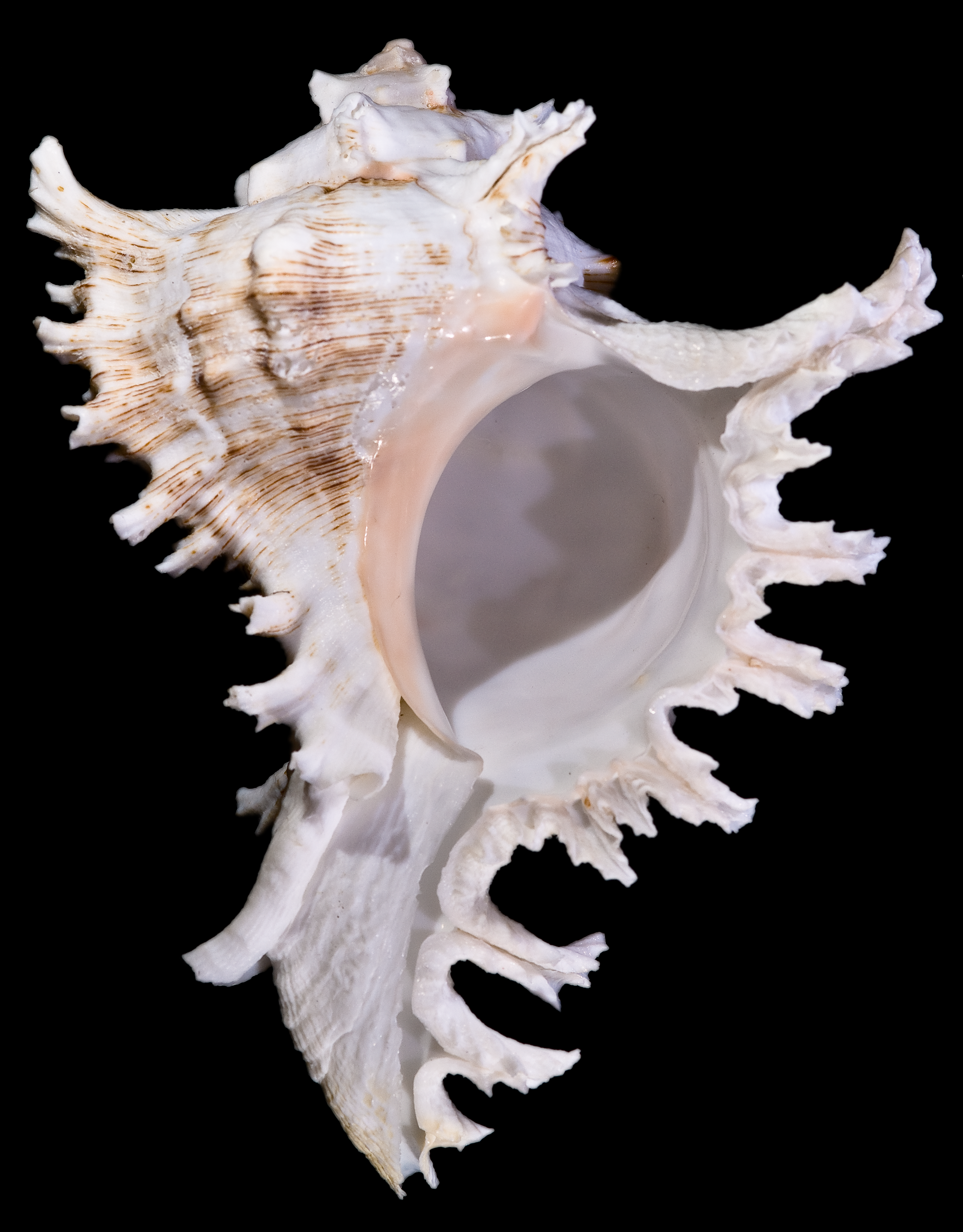 Chicoreus ramosus - Muricidae - Originally from the western Pacific Ocean and the Indian Ocean - 14 cm